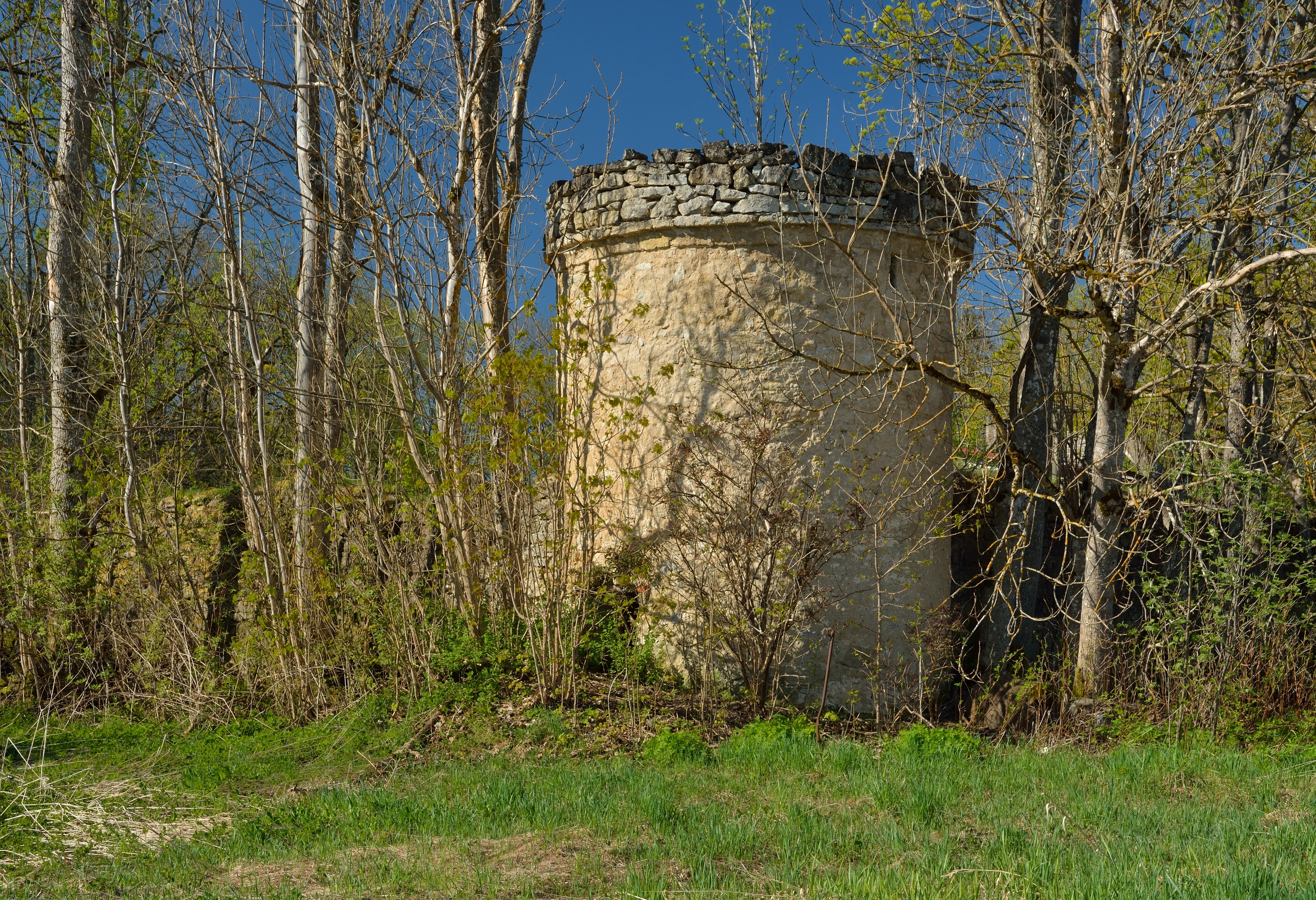 Eastern corner tower of the Kuru manor enclosure wall. Probably built in the second half of 19. century